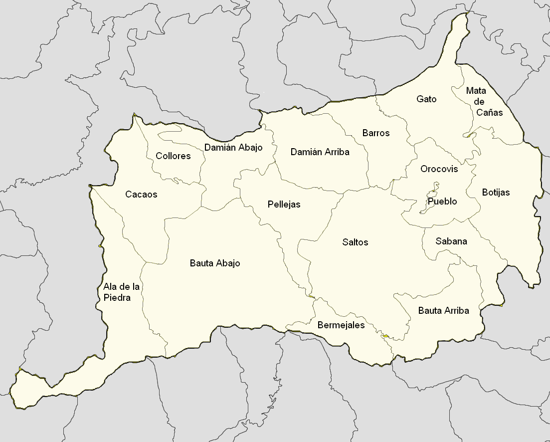 Barrios in the municipality. Map scale is 1:200,000